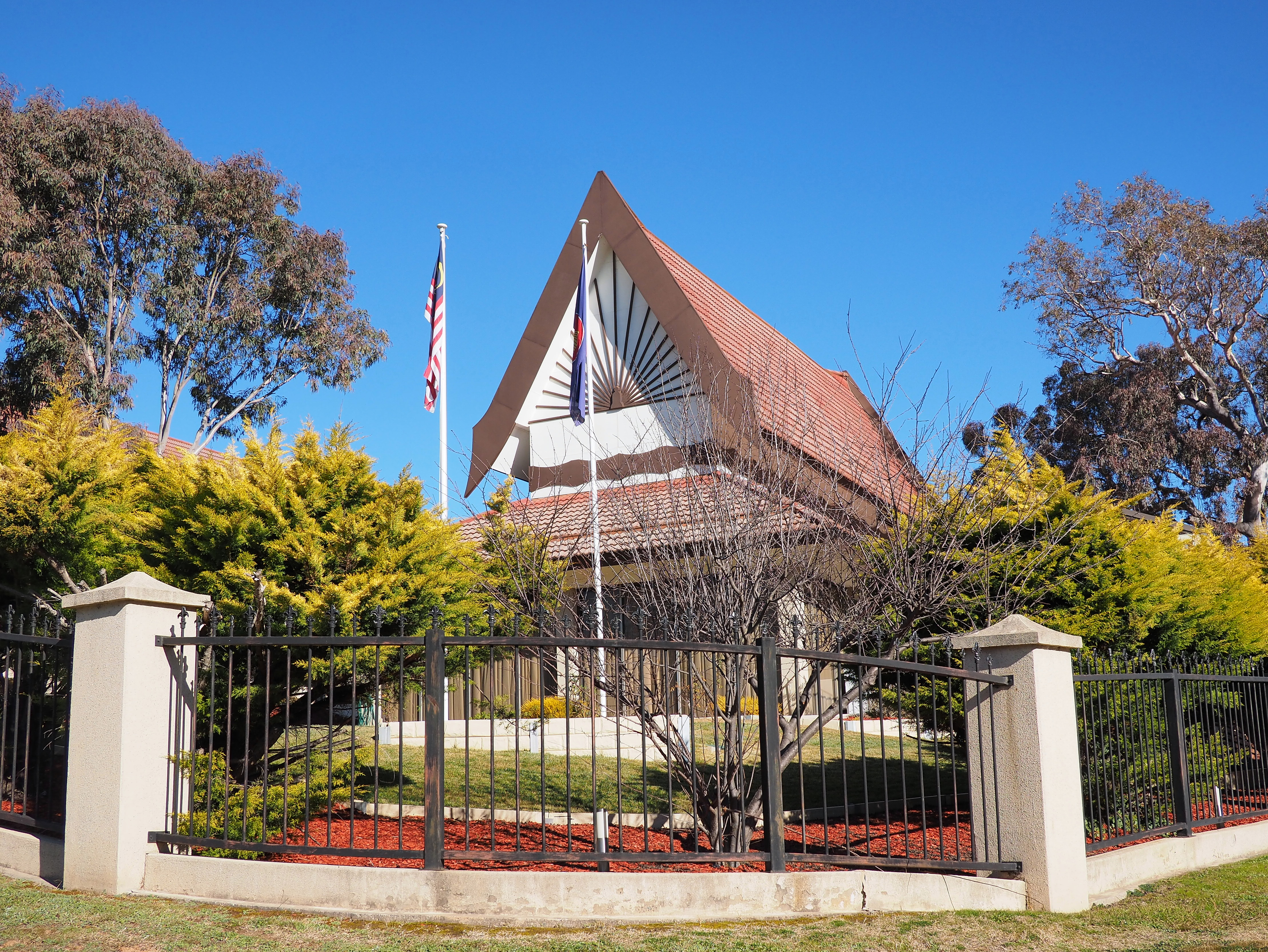 Part of the Malaysian High Commission to Australia